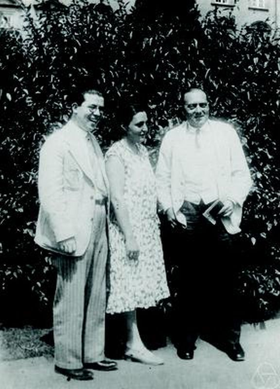 Gottfried Köthe (left), Hagemann, Otto Toeplitz (right) in Bonn 1930